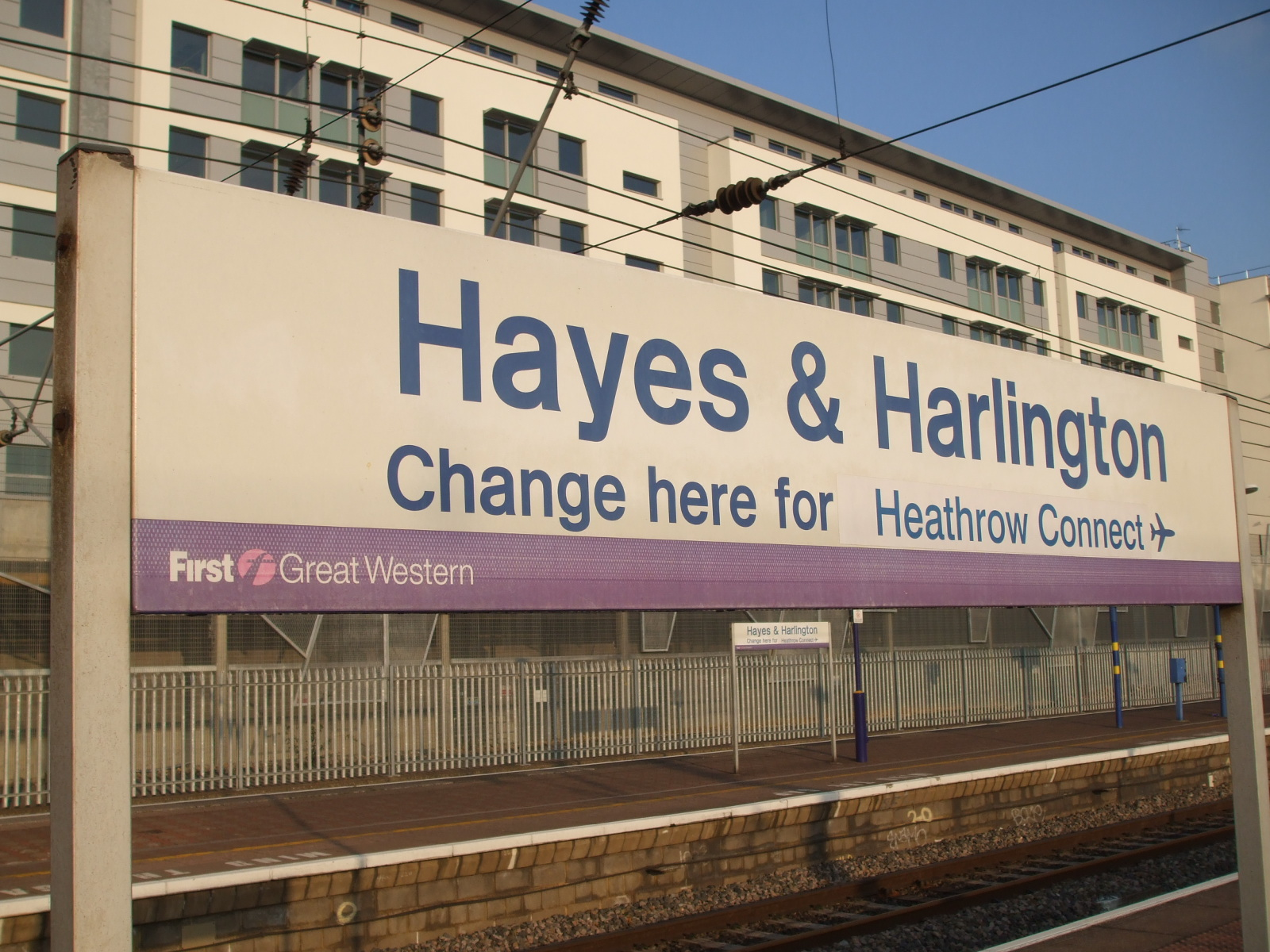 Hayes & Harlington station platform signage, with First Great Western logo and "change for Heathrow Connect" caption. Unlike the stopping service Connect, Heathrow Express services pass fast through the station to/from London Paddington.